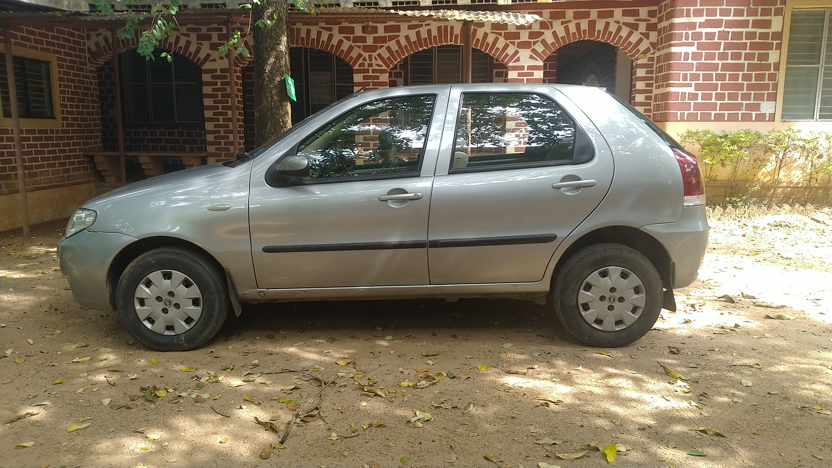 Fiat Palio Stile 1.1 SLX, 2007 Model at Palakkad, Kerala